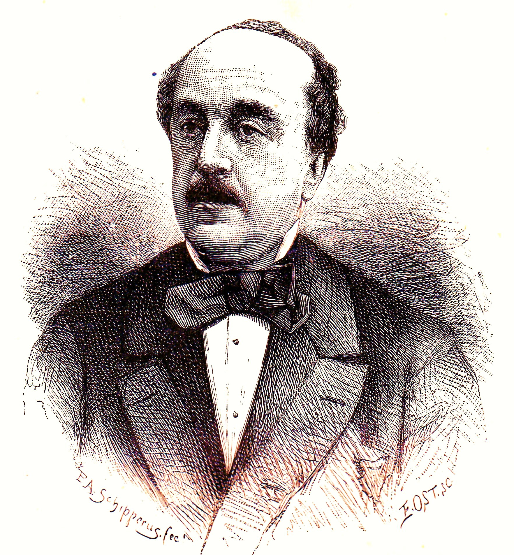 Otto van Rees